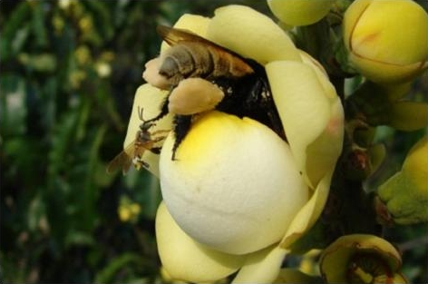 Frieseomelitta longipes female robbing pollen from Eulaema mocsaryi: Approach to flowers of Brazil nut (Bertholletia excelsa) by distinct bee species in a commercial cultivation in the county of Itacoatiara, state of Amazonas, Brazil, 2007